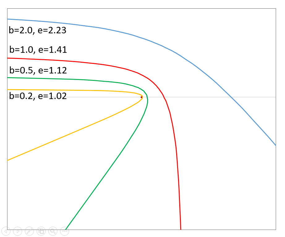 Chart shows hyperbolic trajectories followed by object approaching central object (small dot) with same hyperbolic excess velocities (and semi-major axis=1) and from same direction but with different impact parameters and hence eccentricities.